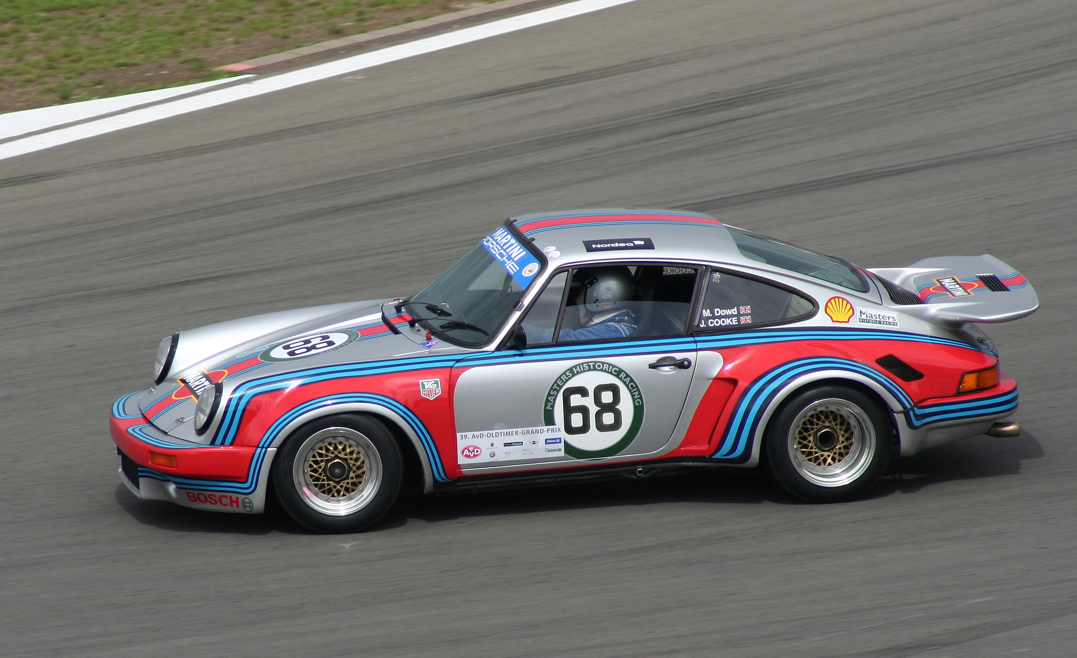 Porsche 911 Carrera RSR, built in 1974, at the Oldtimer Grand Prix of the AvD 2011 at the Nürburgring, Germany, just before the Mercedes-Arena.